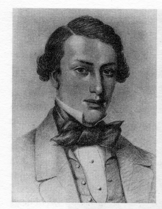 Samuel Orchart Beeton aged 23 in 1854